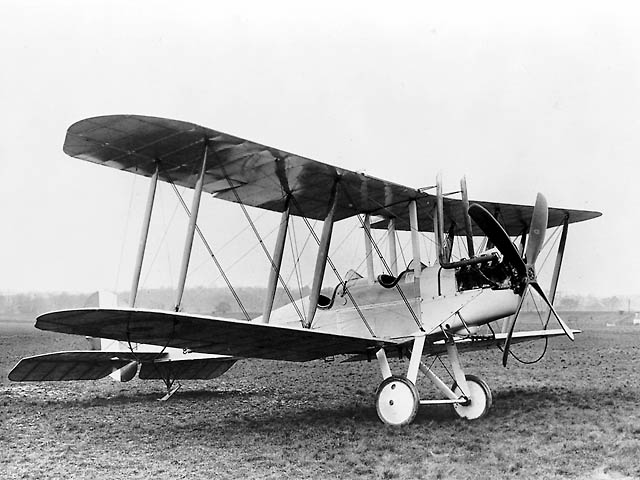 Royal Aircraft Factory BE2C